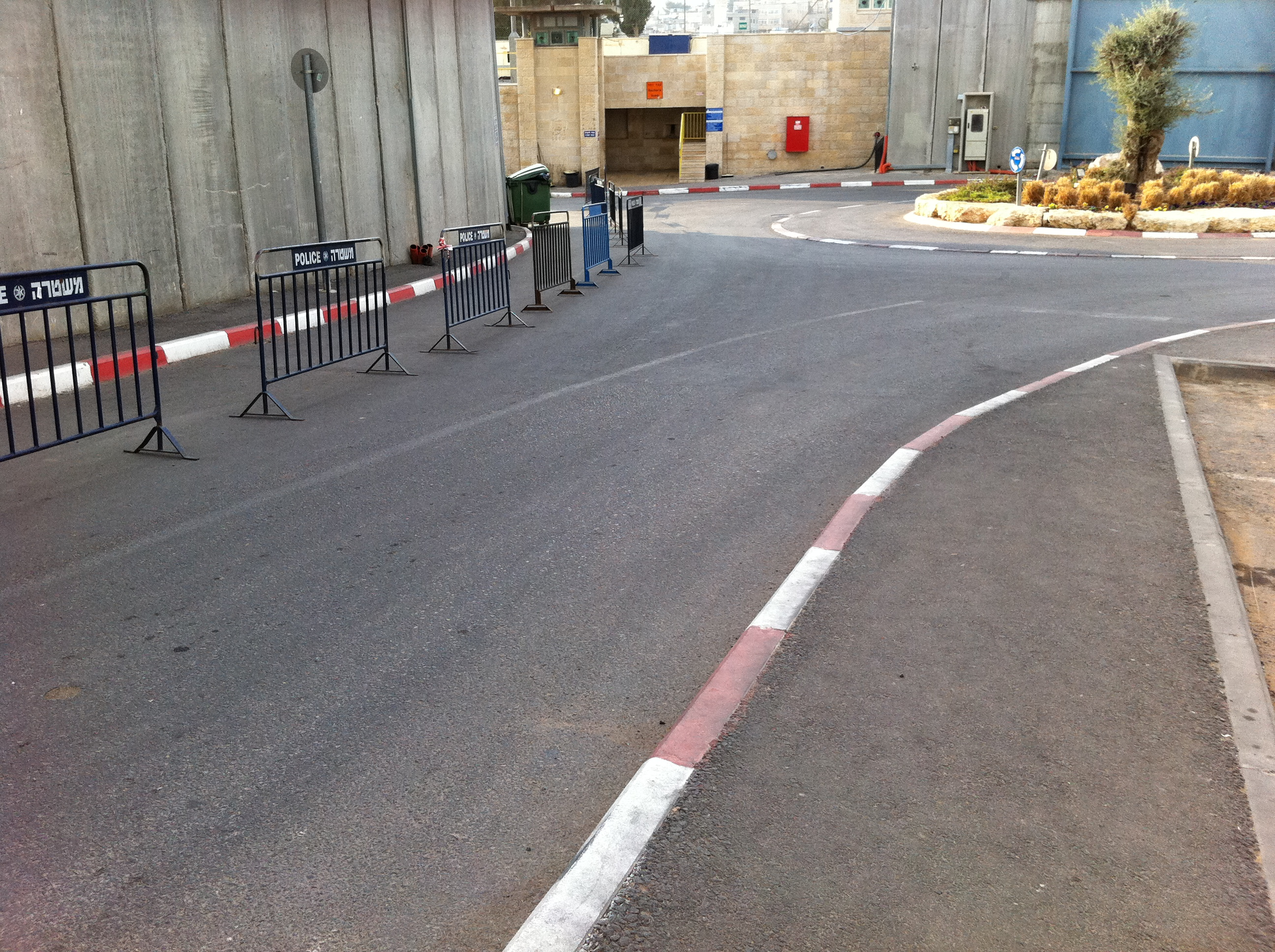 Fortified_entrance_road_to_Kever_Rachel_in_Jerusalem,_occupied Palestinian West Bank